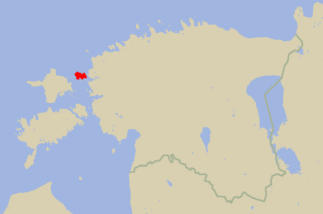 Vormsi island on the map of Estonia.